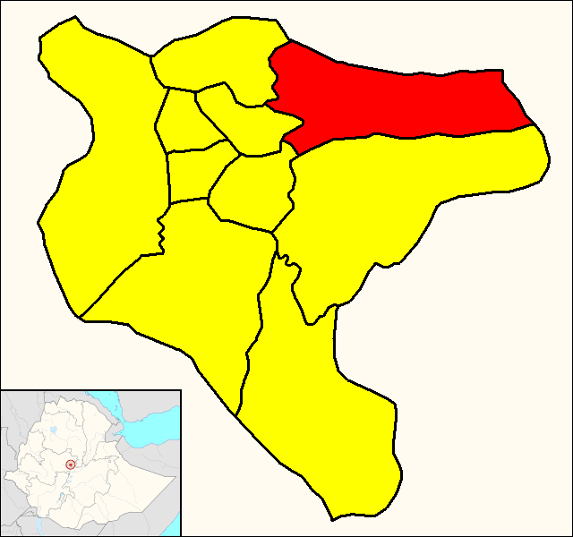 Map of the district (subcity) of Yeka (shown in red) within the city of Addis Ababa (yellow).